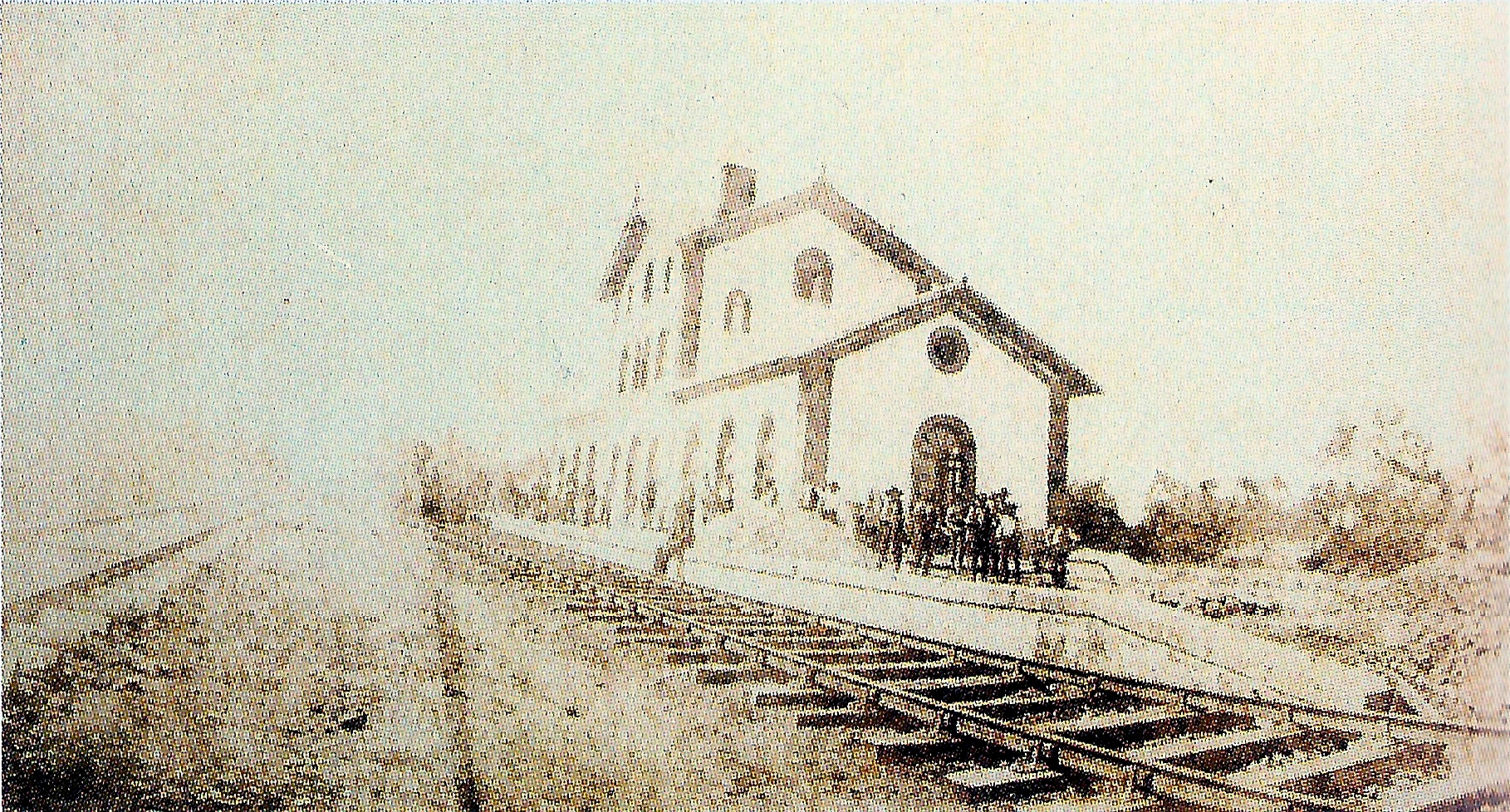 Portalegre Railway Station, in Portugal. The photograph was taken in the second half of the 19th century.